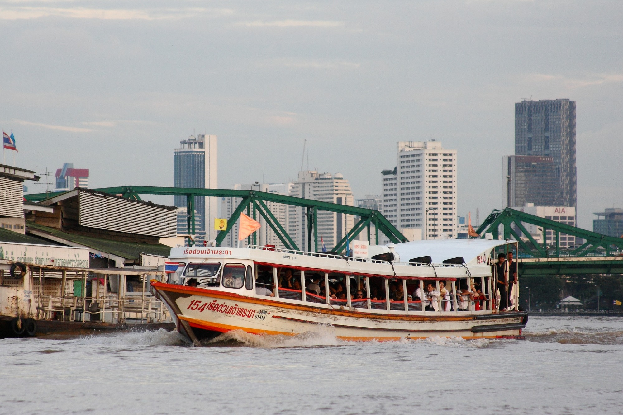 Chao Phraya Express Boat in Bangkok, Thailand